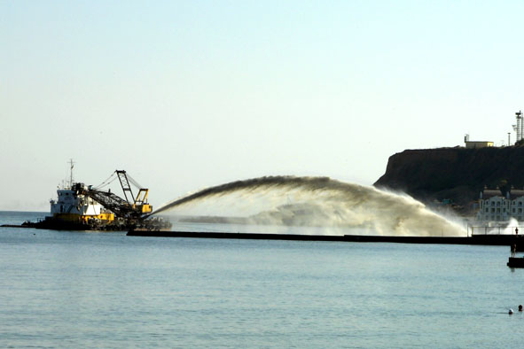 Dredging the beach in Odessa, Ukraine.